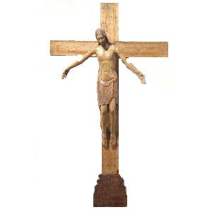 iiiiiiiiiiiiiiiiiiiiiiiiiiiiiiiiiiiiiiiiiii